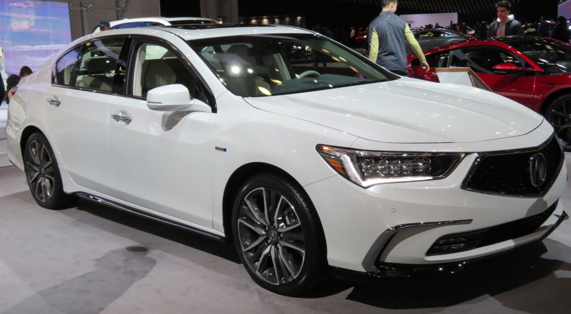 In New York International Auto Show, at Manhattan, New York, USA.